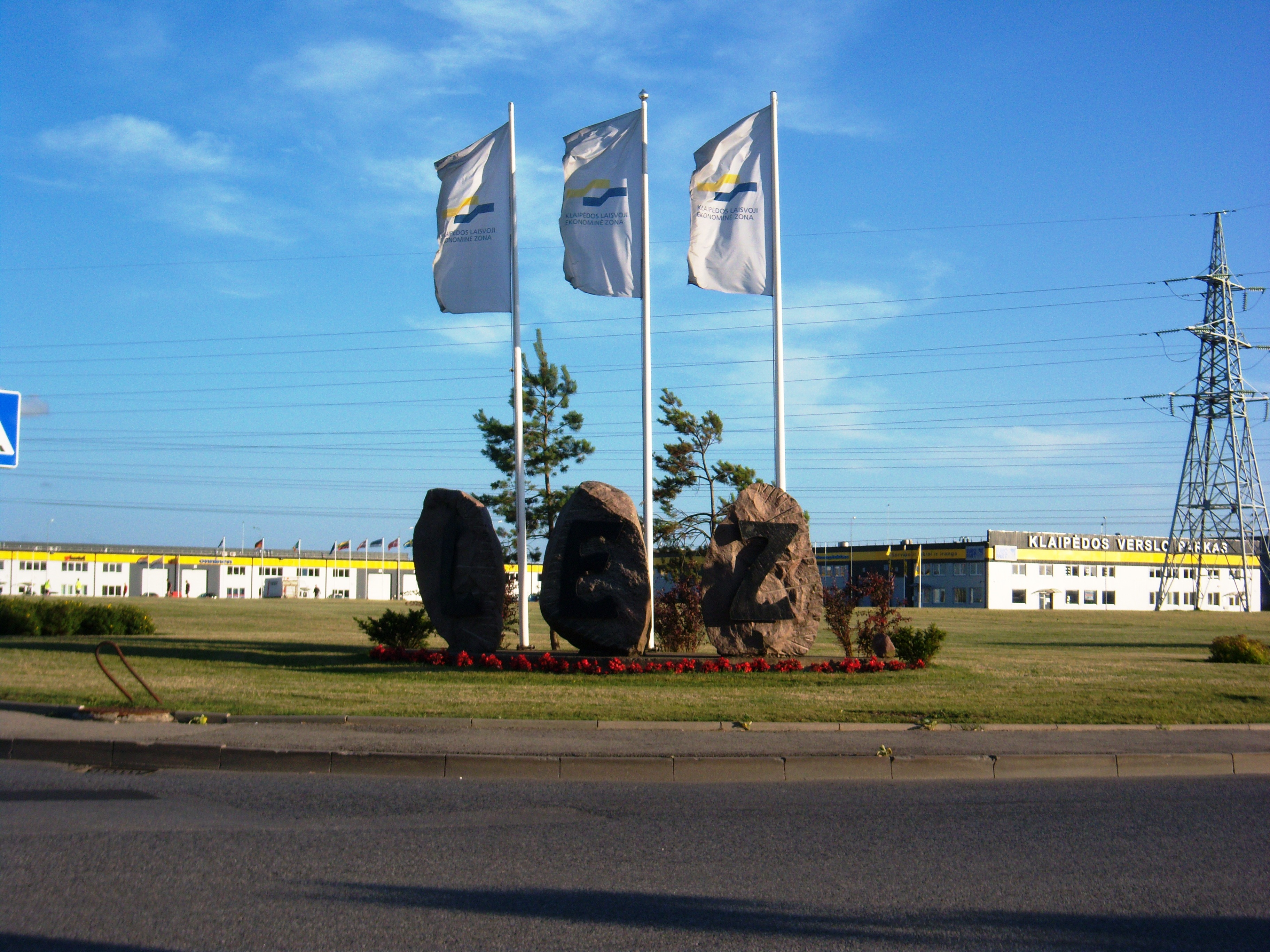 Klaipėda Free Economic Zone, Lithuania